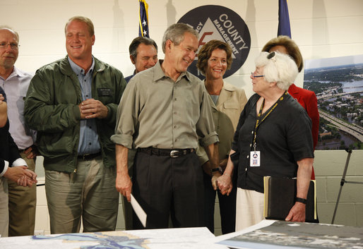 President George W. Bush holds the hand of Cedar Rapids Mayor Kay Halloran during a briefing on the Iowa flooding Thursday, June 19, 2008, at the Lynn County Training and Response Center in Cedar Rapids.